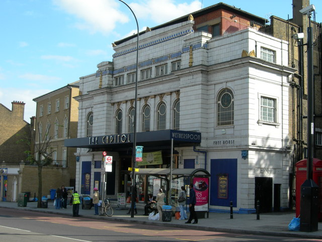 The Capitol, 11-21 London Road, Forest Hill, London SE23. Designed in Art Deco Egyptian style by J Stanley Beard and built in 1929 as the Capitol Cinema. Taken over by Associated British Cinemas in 1933, renamed ABC in 1968, closed as a cinema 1973. Reopened as a Mecca Bingo Club 1978, later the Jasmine Bingo Club, closed again 1996. Reopened 2001 as a Wetherspoon pub.